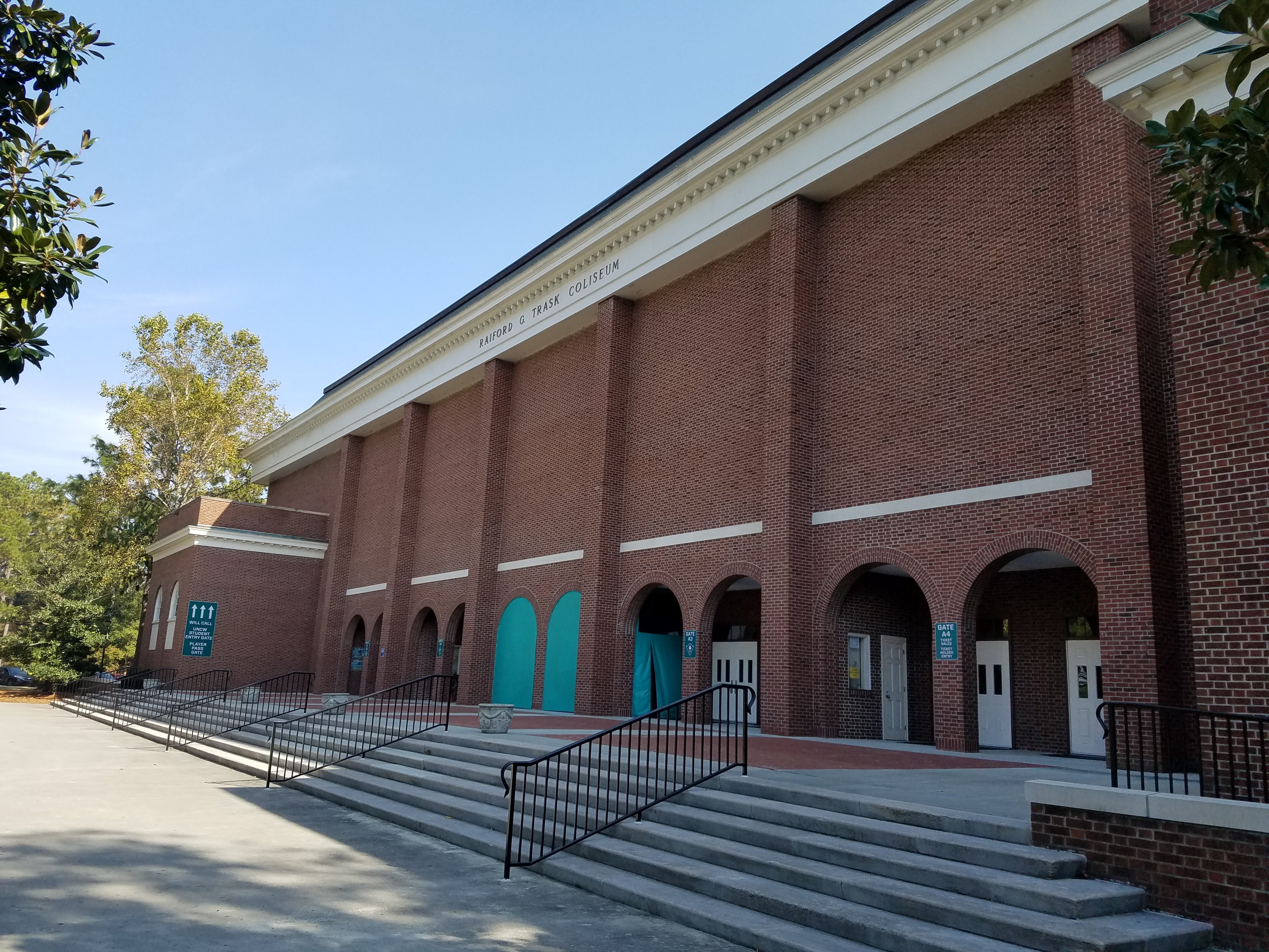 Trask Coliseum stadium on the campus of University of North Carolina Wilmington (UNCW) in Wilmington, North Carolina.